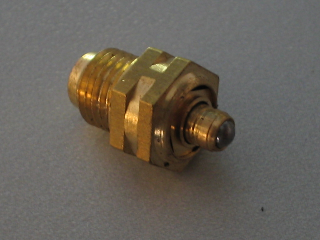 Float needle valve 2cv (carburetor part).